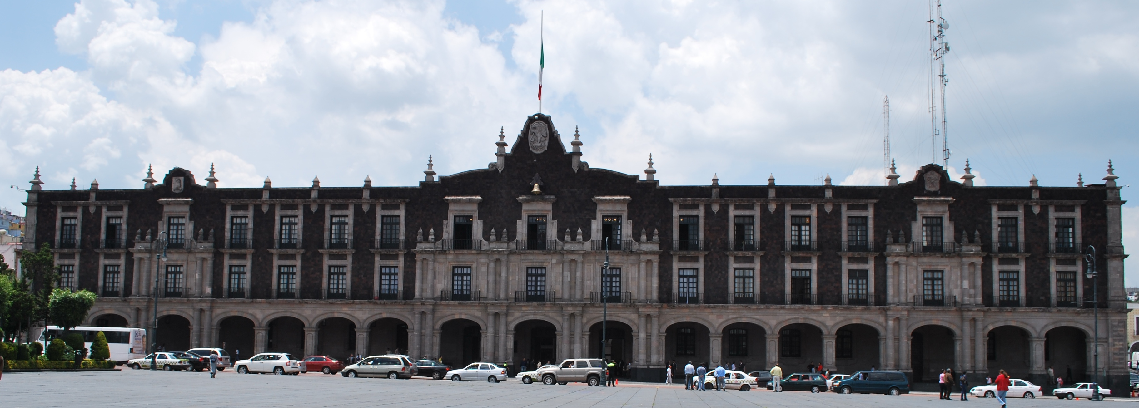 State government palace on the north side of the Plaza de los Martires in Toluca, Mexico State